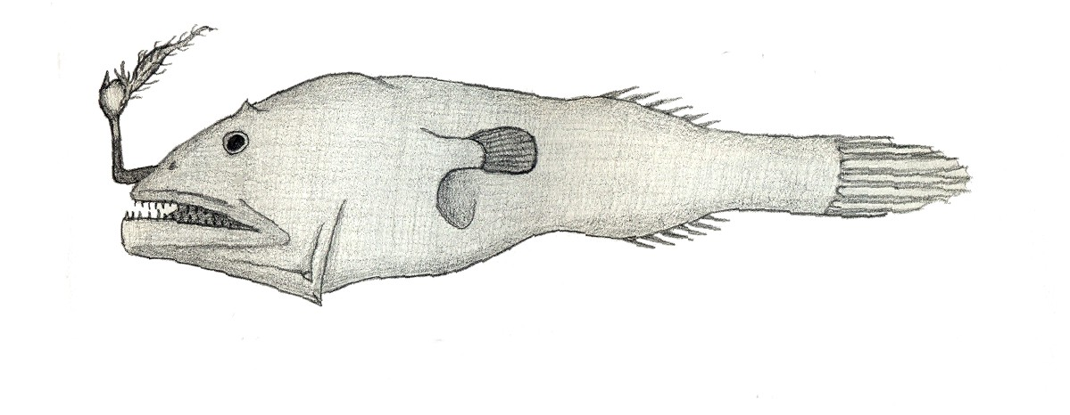 Pentherichthys venustus (image name is incorrect)